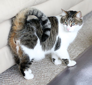 Domestic cat exibiting naturally occuring curly tail